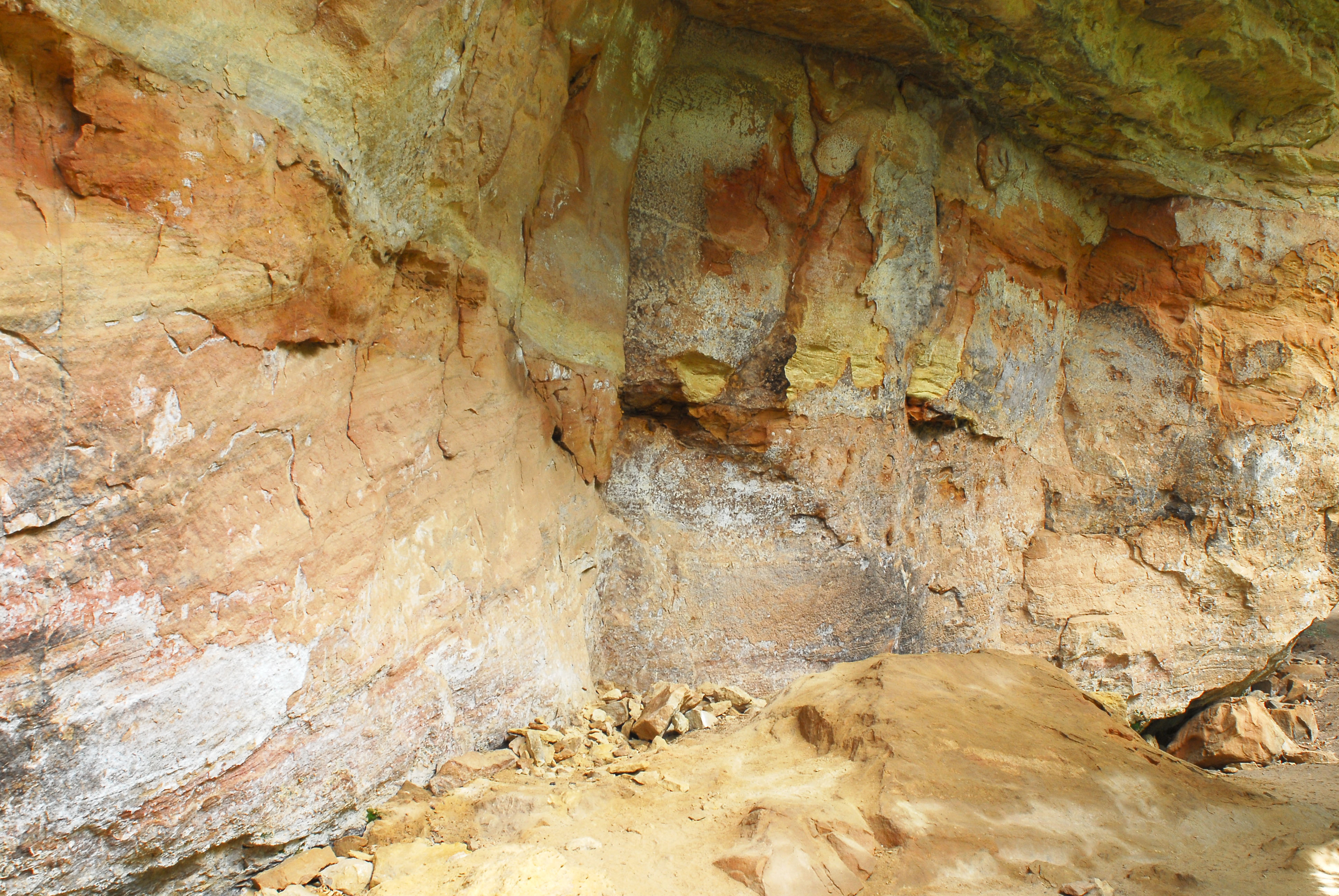 A detail of the mixture of stones that make up the Toroweap Formation. NPS Photo by: Kristen M. Caldon Toroweap Formation: thickness: 130-375 ft. The Toroweap Formation, a mixture of shales, sandstones, and limestones, forms the first slope below the rim of the canyon. It was deposited 273 million years ago, during the Paleozoic Era- Late Early Permian Period. This formation, with its variable rocks, marks the return of the sea to the Grand Canyon region. Both transgressions and regressions occurred during deposition. The Toroweap Formation was thus deposited in everything from shallow marine and intertidal to coastal dune environments.